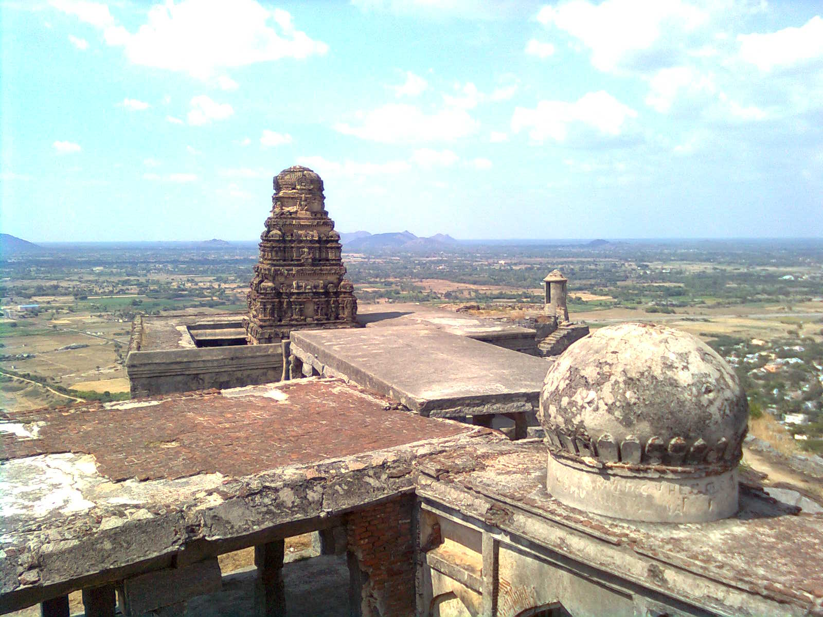 Two Granaries, Well For Storing Of Ghee, Well For Storing Oil, Two Temples And An Audience Hall On The Krishnagiri.